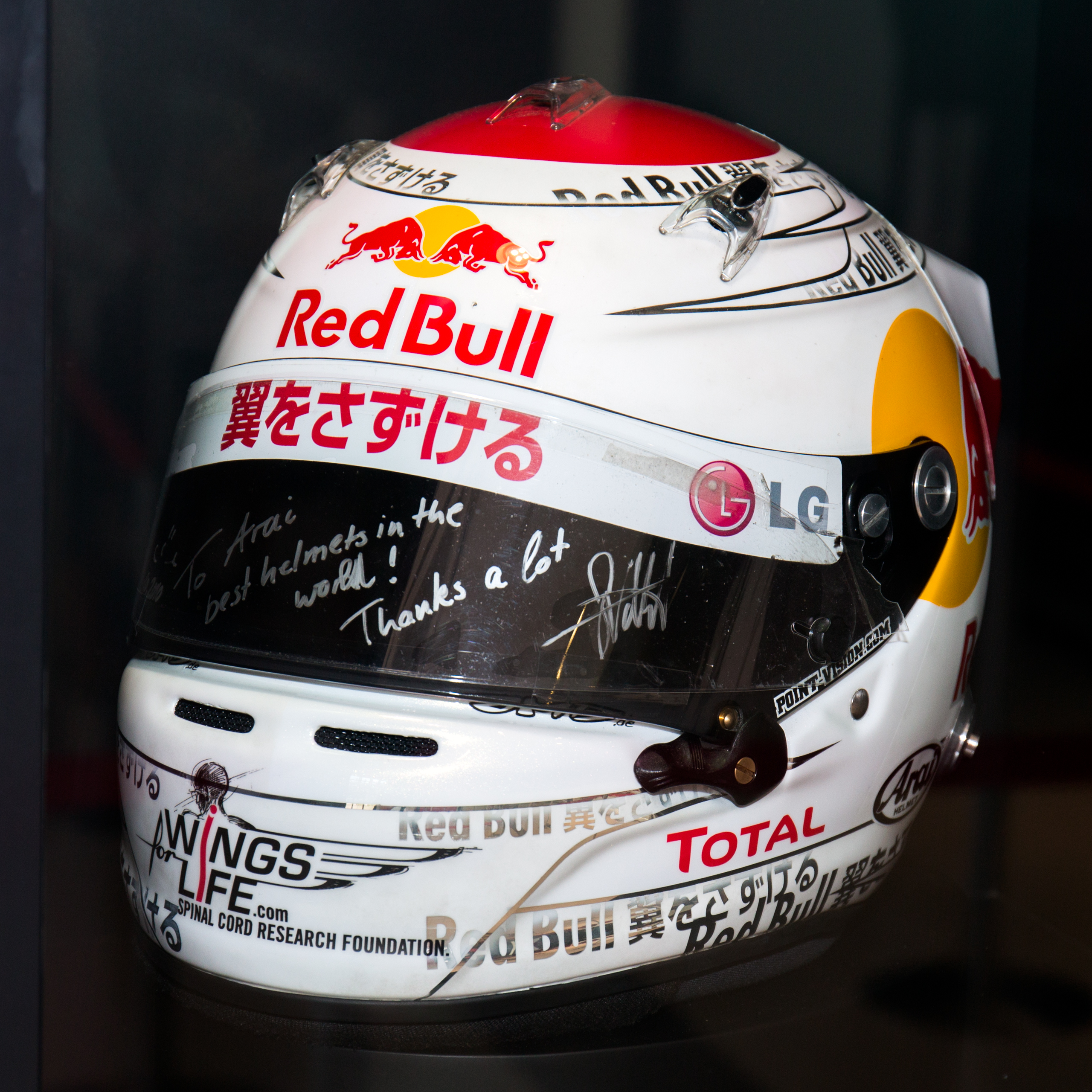 Sebastian Vettel's 2010 Japanese GP helmet